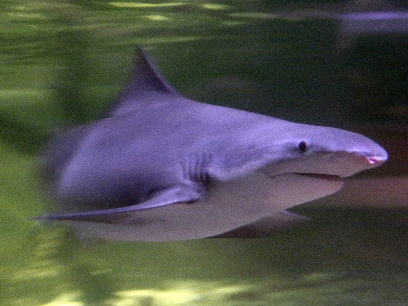 Speartooth shark (Glyphis glyphis) at the Melbourne Aquarium